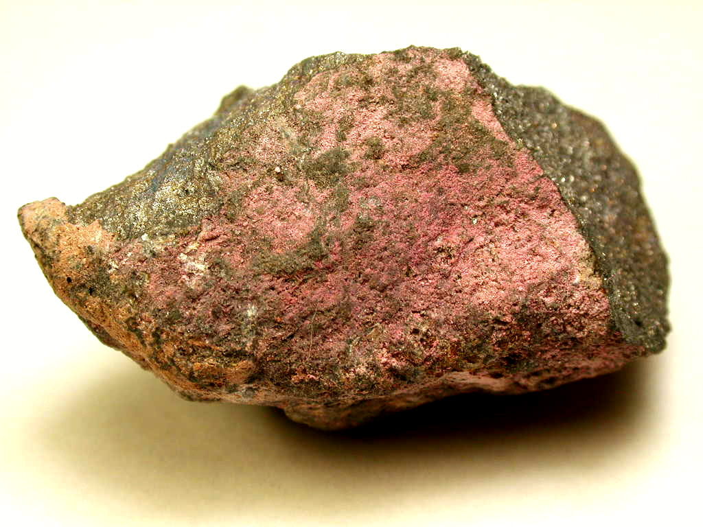 Bieberite, Bismuth Locality: Schlema, Schlema-Hartenstein District, Erzgebirge, Saxony, Germany Original description: A heavy 4.4 by 2.7 cms mass of mainly grey Bismuth covered by a thin film of pinkish Bieberite from an old classic locality. JSS specimen and photo.